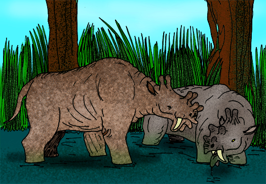 My reconstructions of the Eocene uintatheres Eobasileus (left) and Uintatherium. (C) Stanton F. Fink